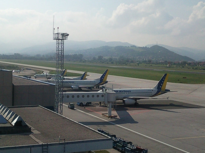 Bh_air_fleet